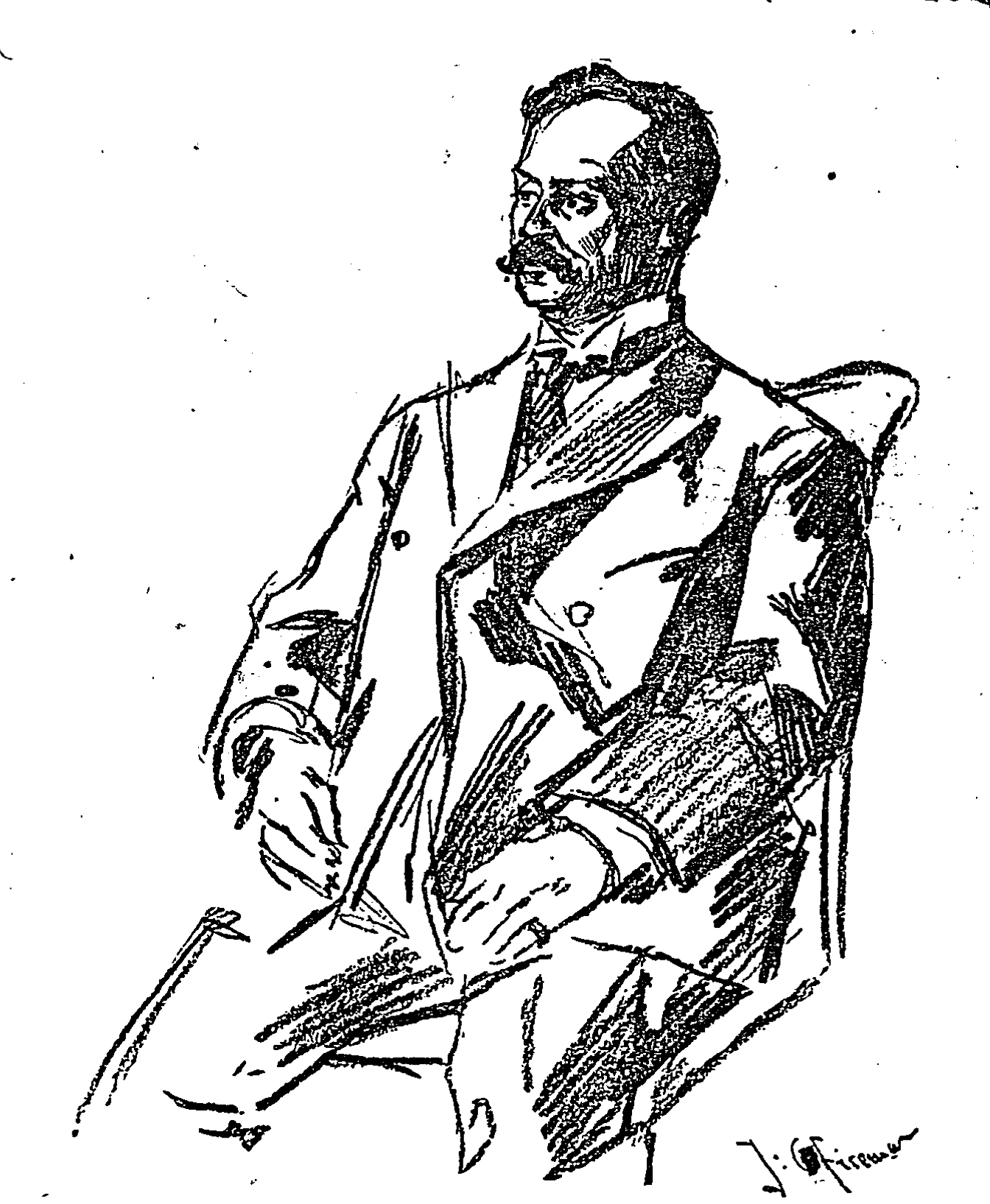 Drawing of Simon Steingut, "Mayor of Second Avenue," in New York Times, March 5, 1905